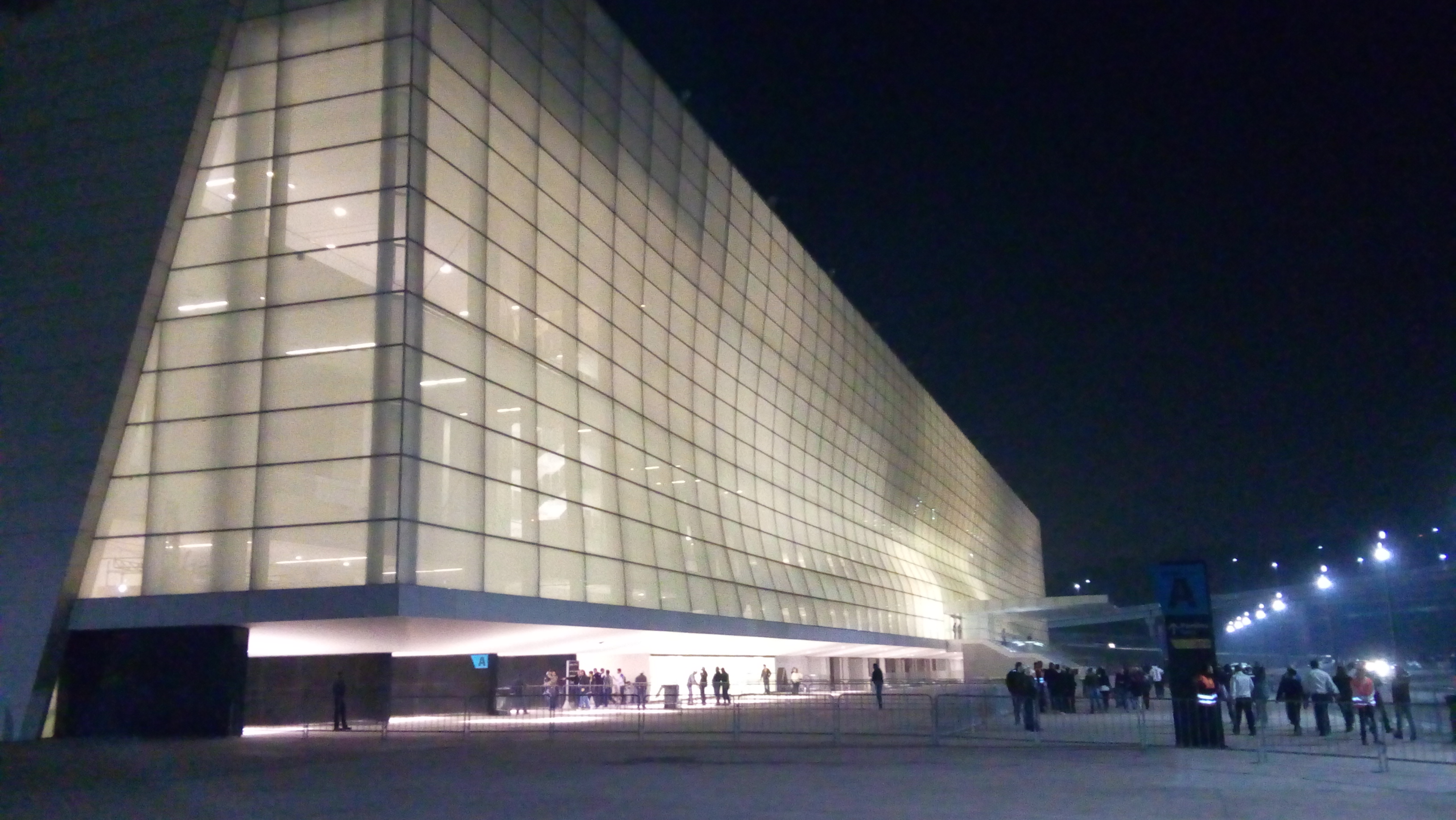 Arena Corinthians - West Building